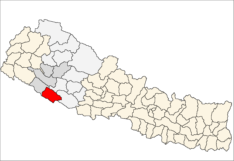 FrenchCarte de localisation dudistrict de Banke(wp-FR),au Népal (wp-FR).EnglishLocation map ofBanke District(wp-EN),in Nepal (wp-EN).